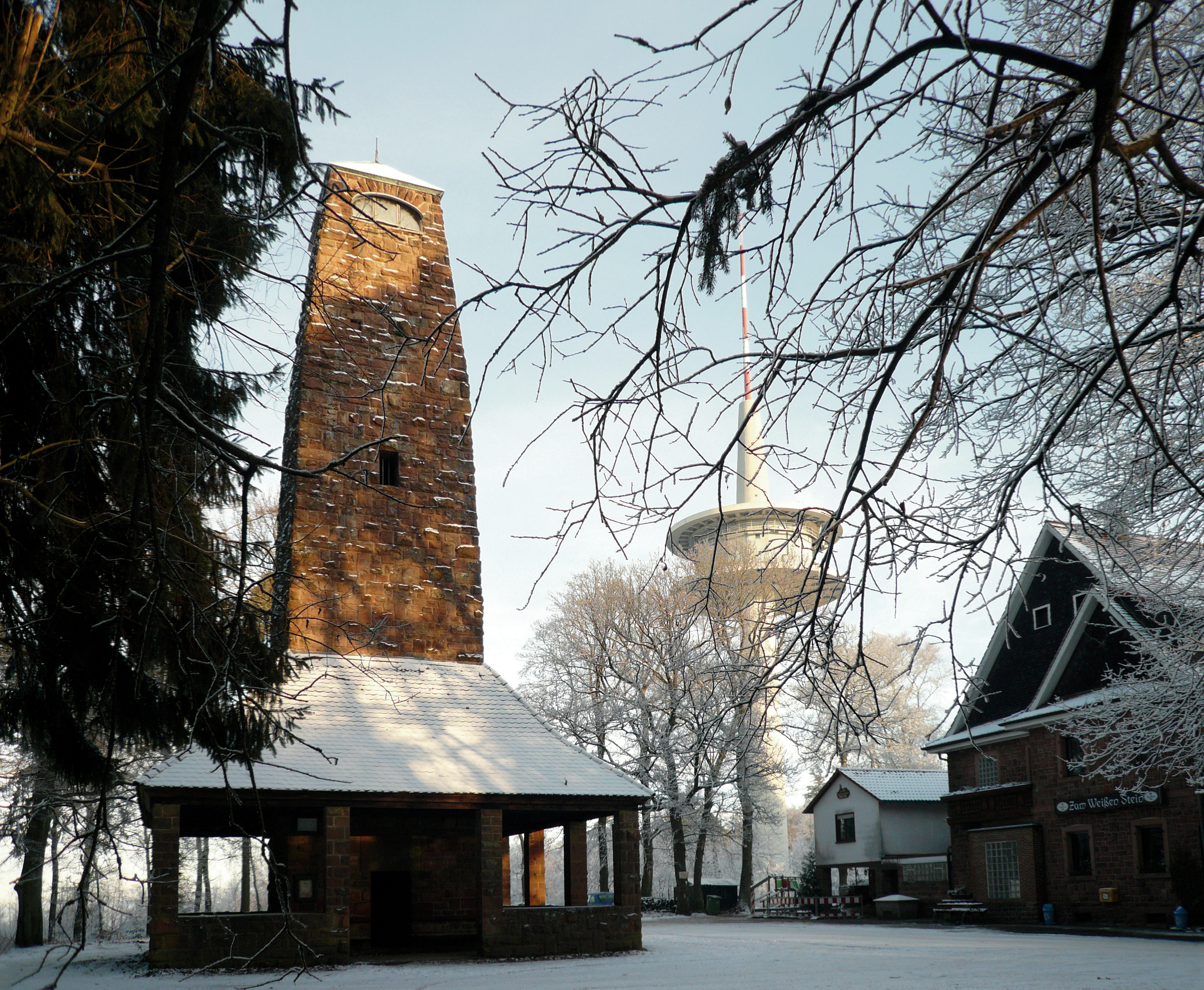 On Weisser Stein, a mountain north of Heidelberg